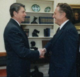 Ronald Reagan and Burton Levin in Oval Office in 1987